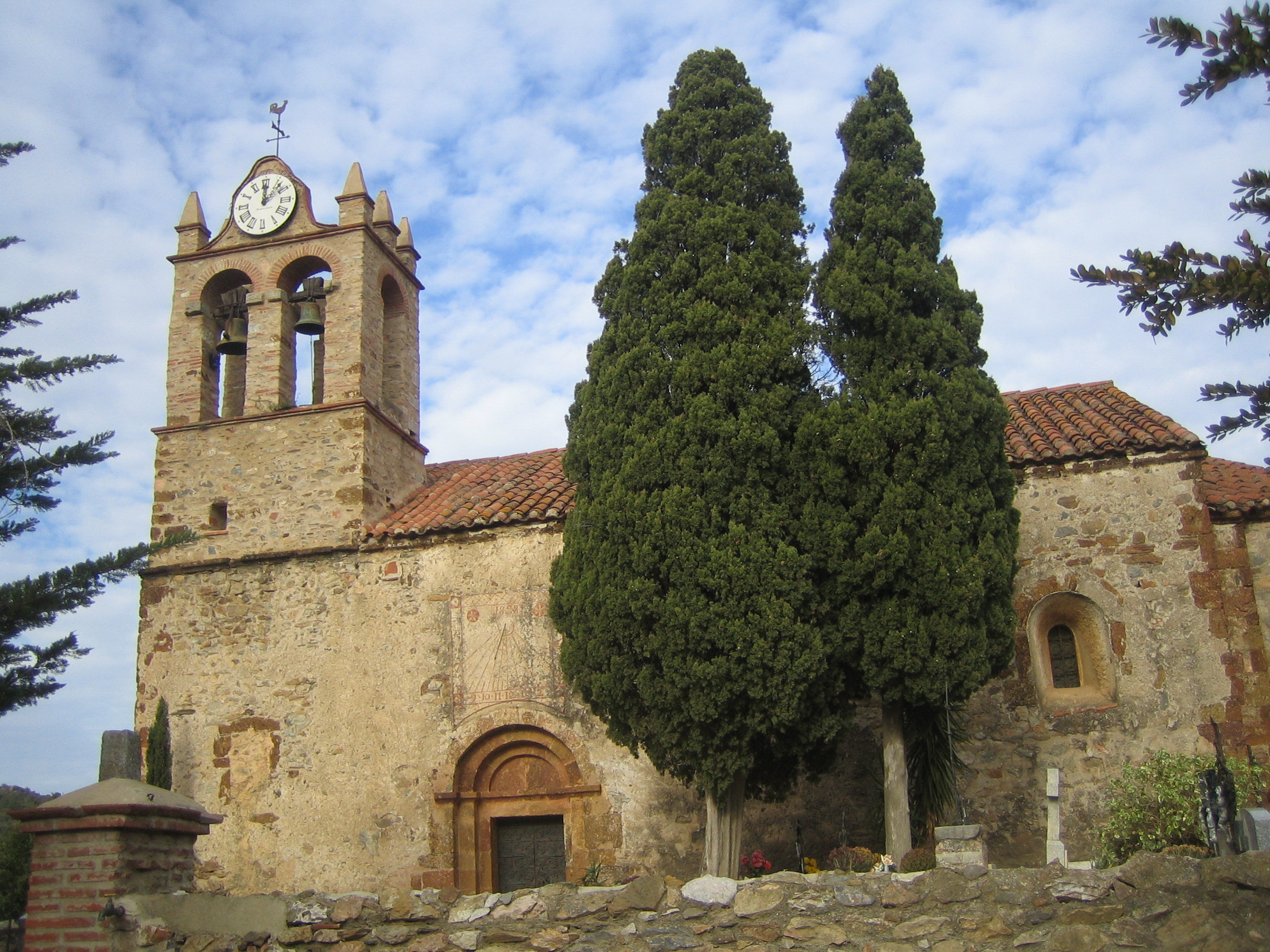 Church of Santa Maria del Mercadal, Castellnou dels Aspres (Rosselló)